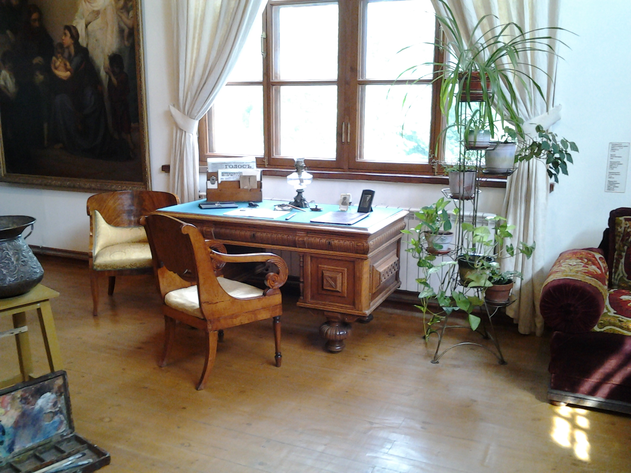 Pavel Chistyakov Studio in his home which is now a museum in Pushkin, Russia